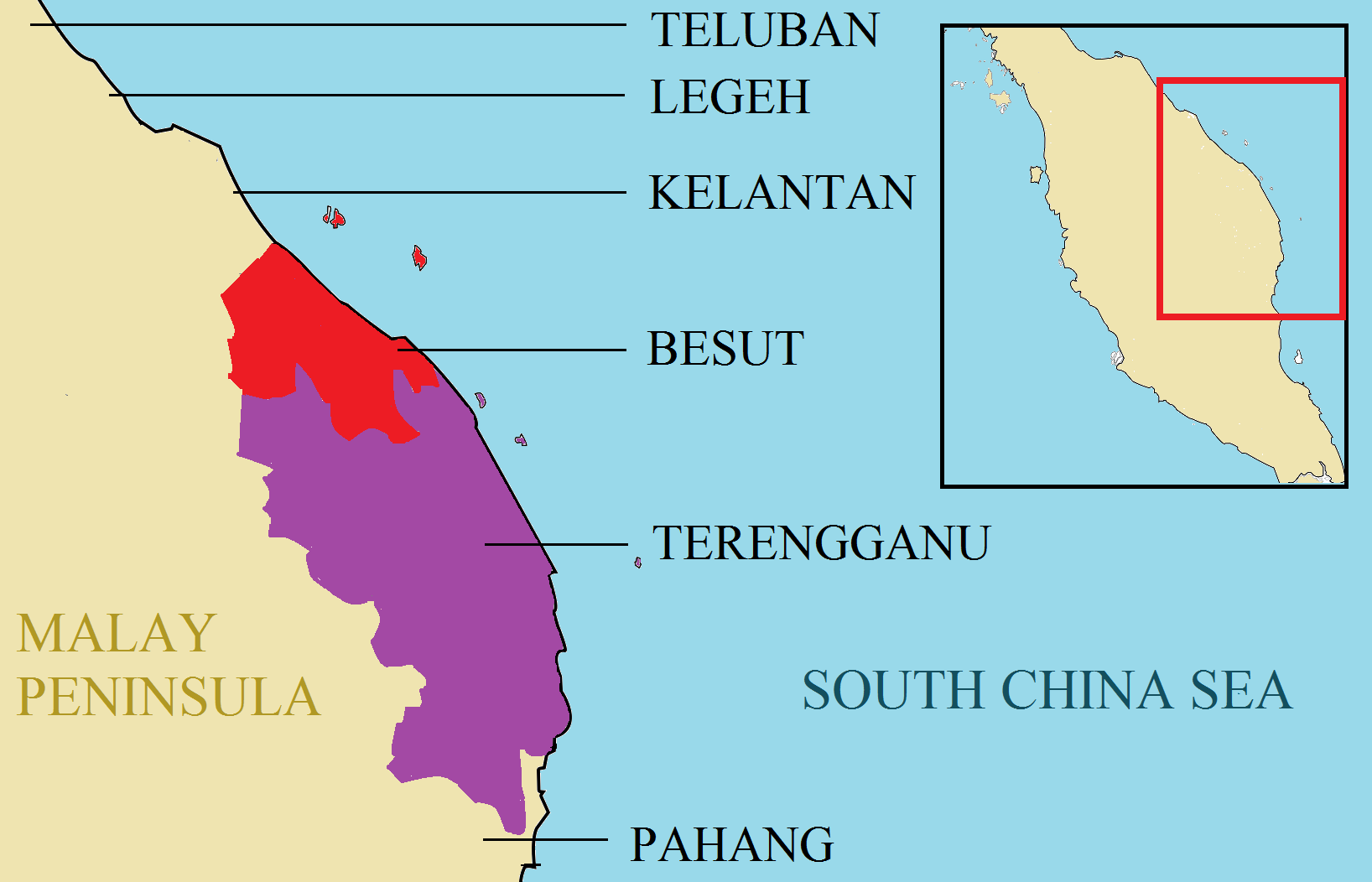 Political Map of Besut and the surrounding kingdoms by 1890.